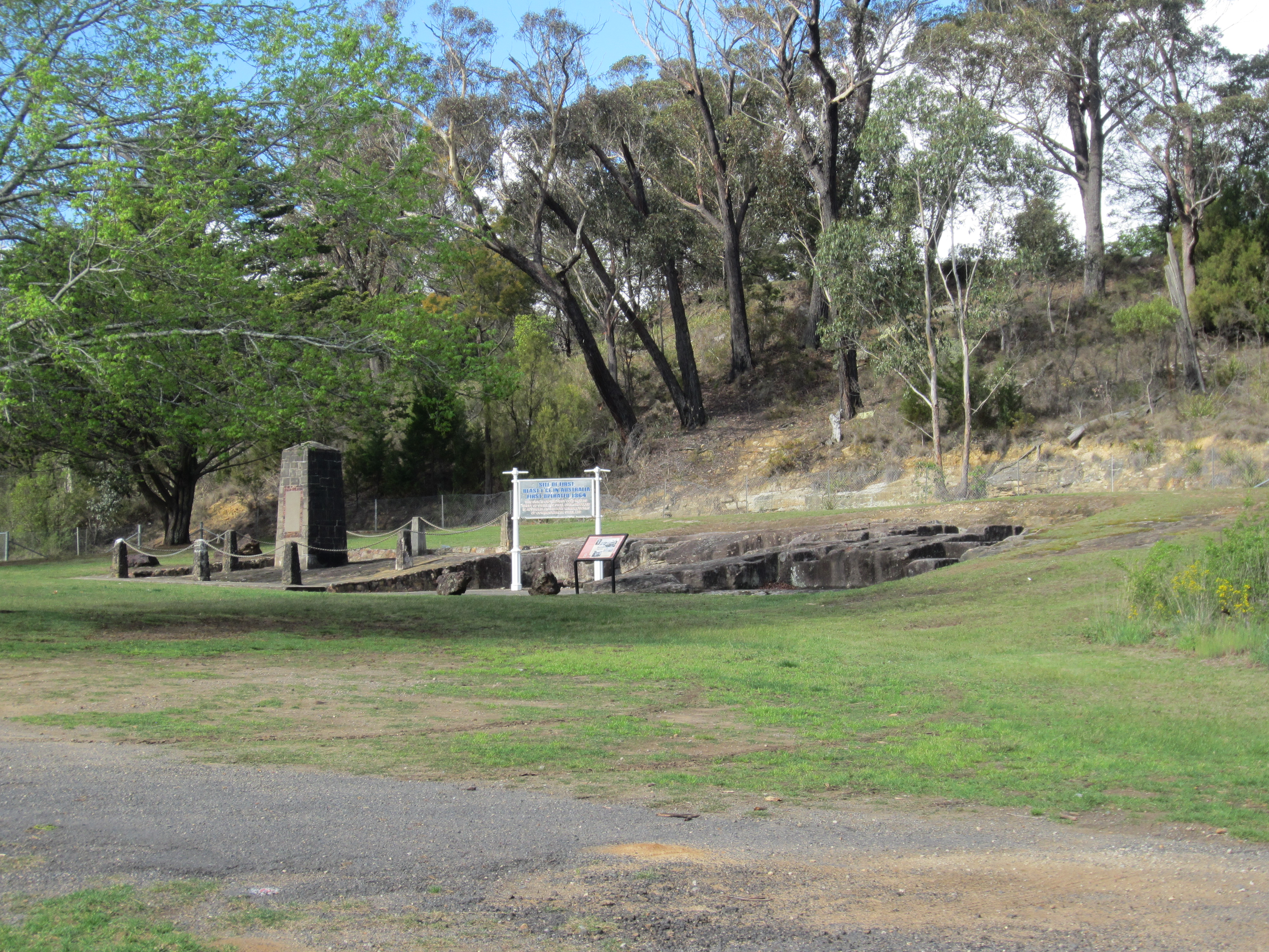 Site of former blast furnace of the Fitzroy Iron Works, the first iron smelting blast furnace in Australia. The site is ajacent to the modern-day Ironmines Oval. There are trenches cut into the bedrock and a commenative cairn erected in 1948.